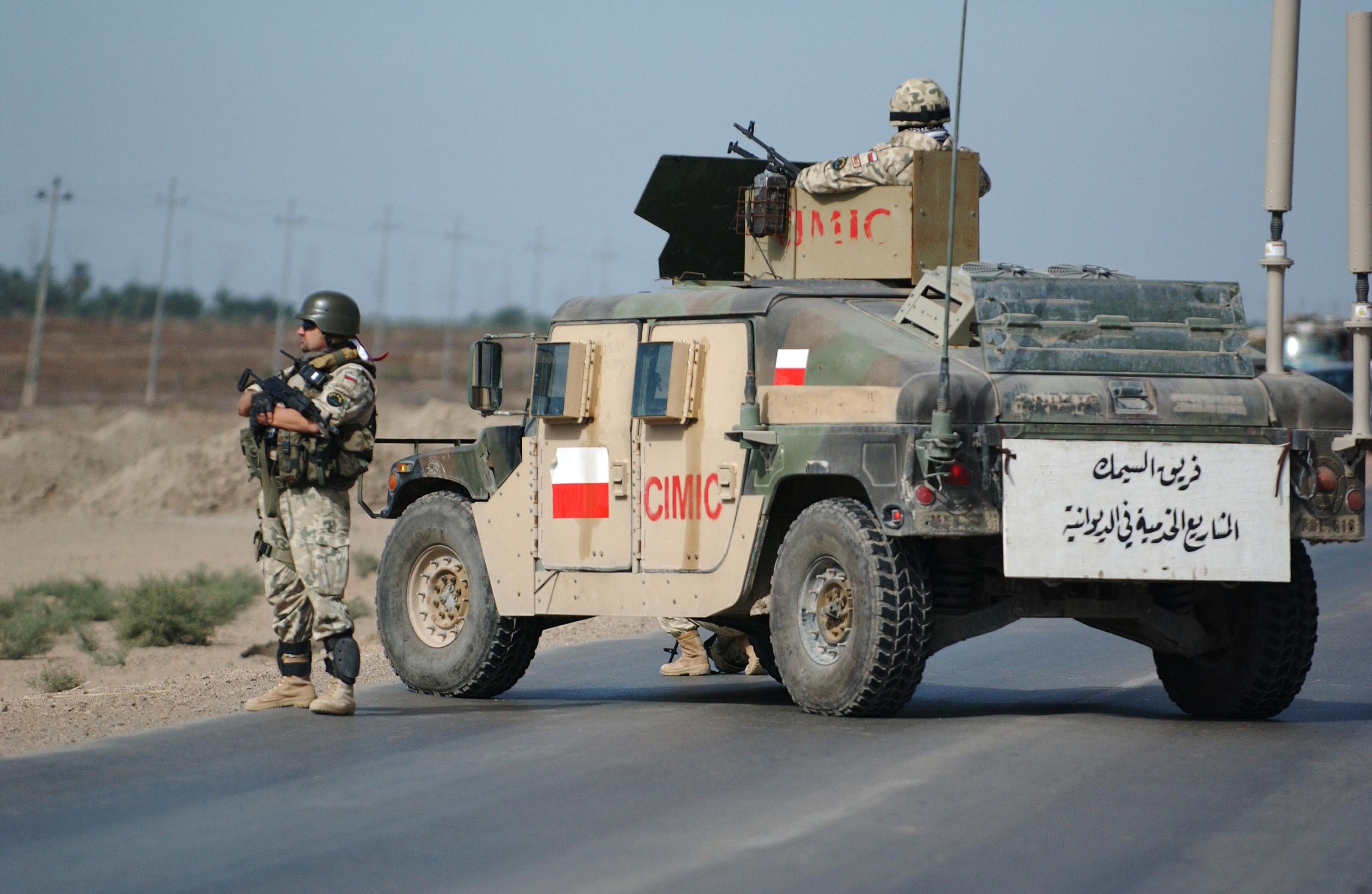 Polish army soldiers from the Civil Military Cooperation Group at Camp Echo, Iraq, provide security as they stop to make minor vehicle repairs on their way to Hwaeer, Iraq, Nov. 9, 2006. The CIMIC unit is responsible for funding, contracting out and inspecting projects to revitalize the economy of Iraq and provide services to Iraqi citizens.